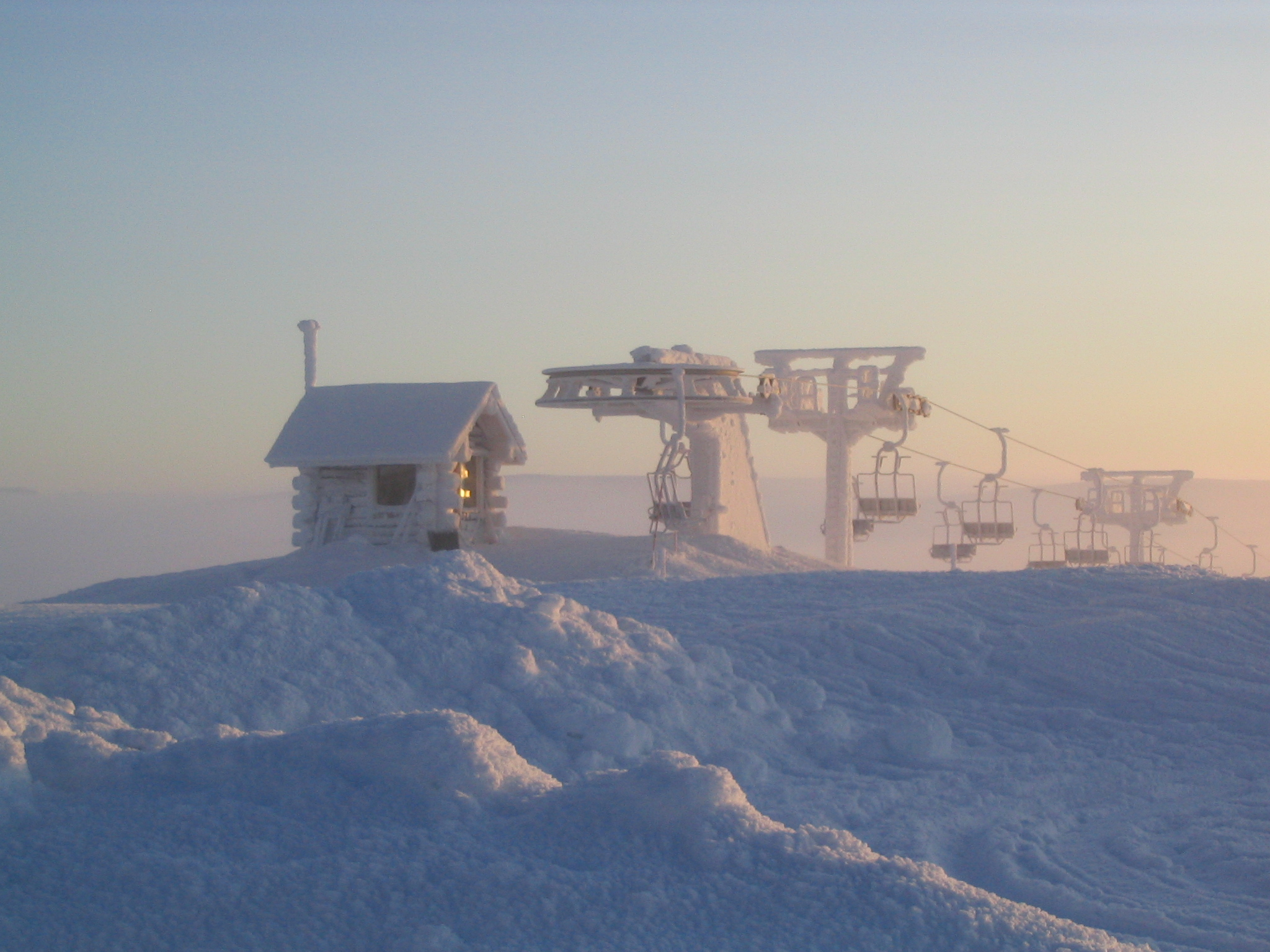 Downhill skiing lift in the mountain Kaunispää, Inari, Finland.